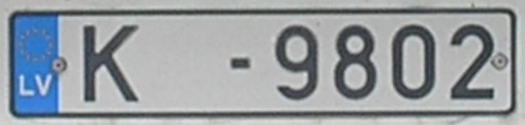 License plate for trailers from Latvia